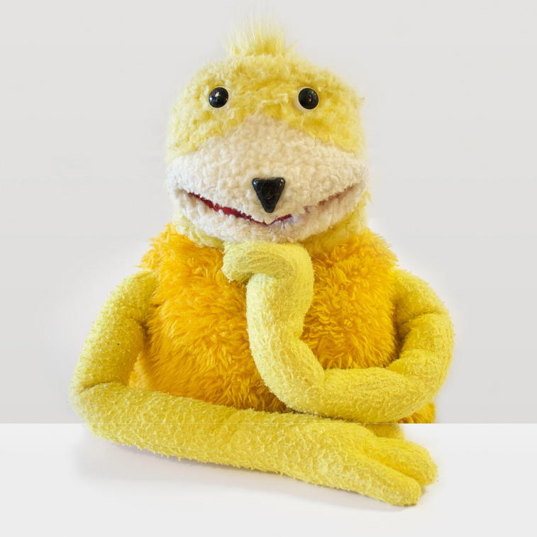 An image of Flat Eric posing for the camera. This version is croped.